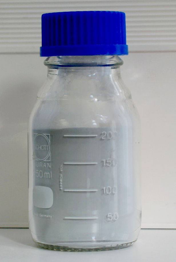 100 grams of lithium aluminium hydride, LiAlH4